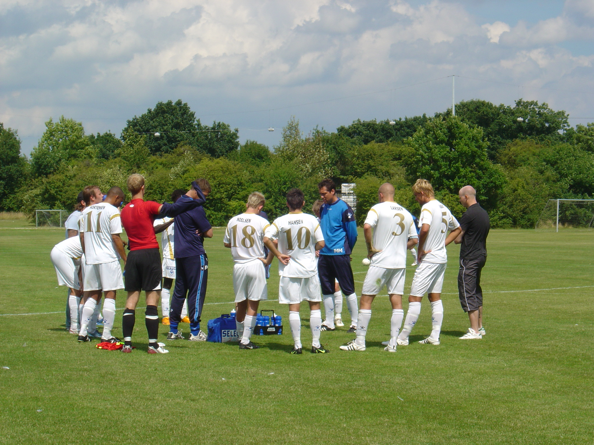 Football coach Michael Madsen (in the middle with blue shirt) talking with the players for the Danish football club FC Amager during halftime of the friendly away match against Brønshøj Boldklub on 12 July 2008, that ended 4-4.